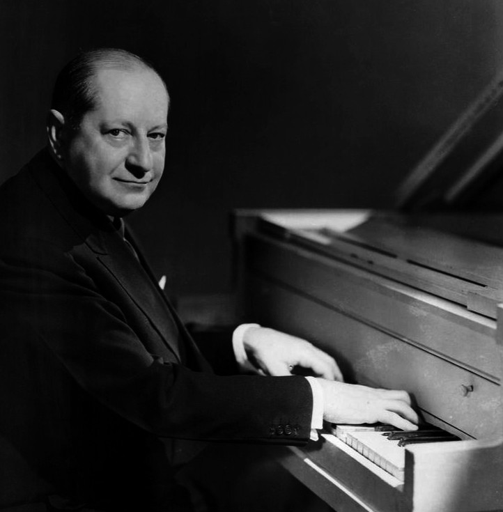 Photograph of composer Sigmund Romberg.